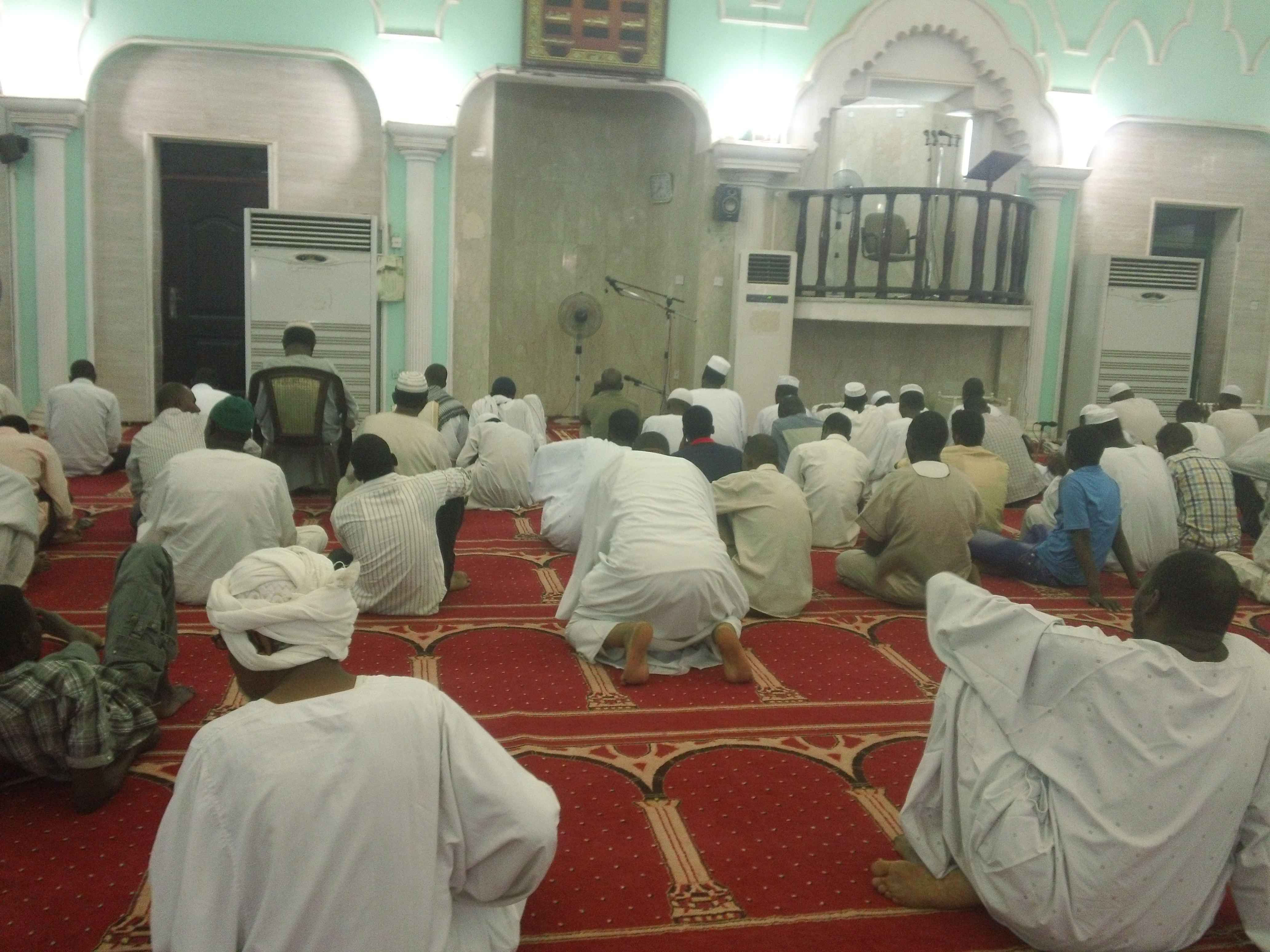 Shahid mosque Algomah prayers in Ramadan - Khartoum - Sudan